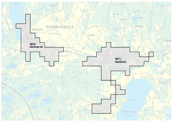 Borders of the Nummen kk and Saukkola urban areas (taajamat) by Statistics Finland (Tilastokeskus)